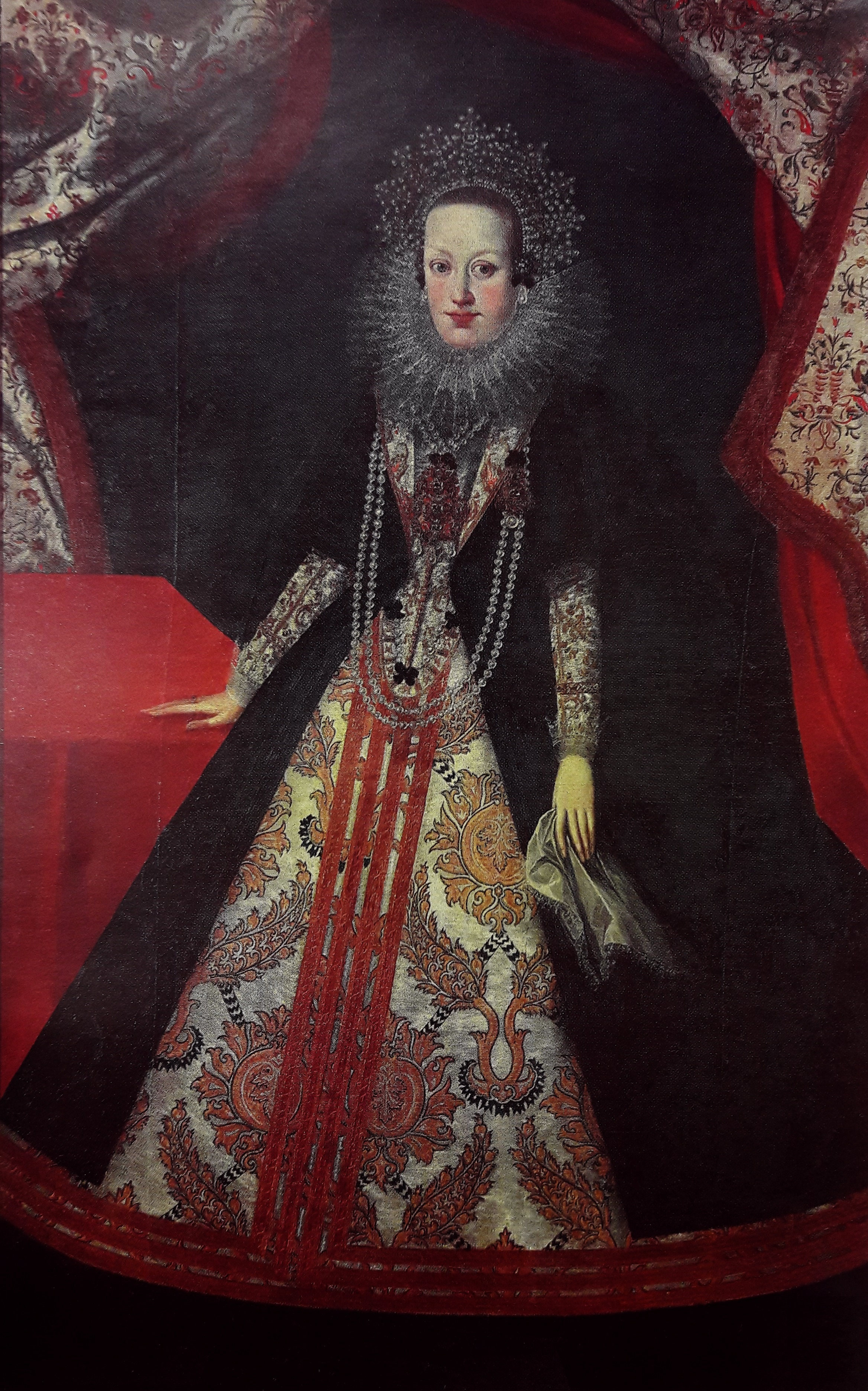 Portrait of Constance of Habsburg (1588-1631).